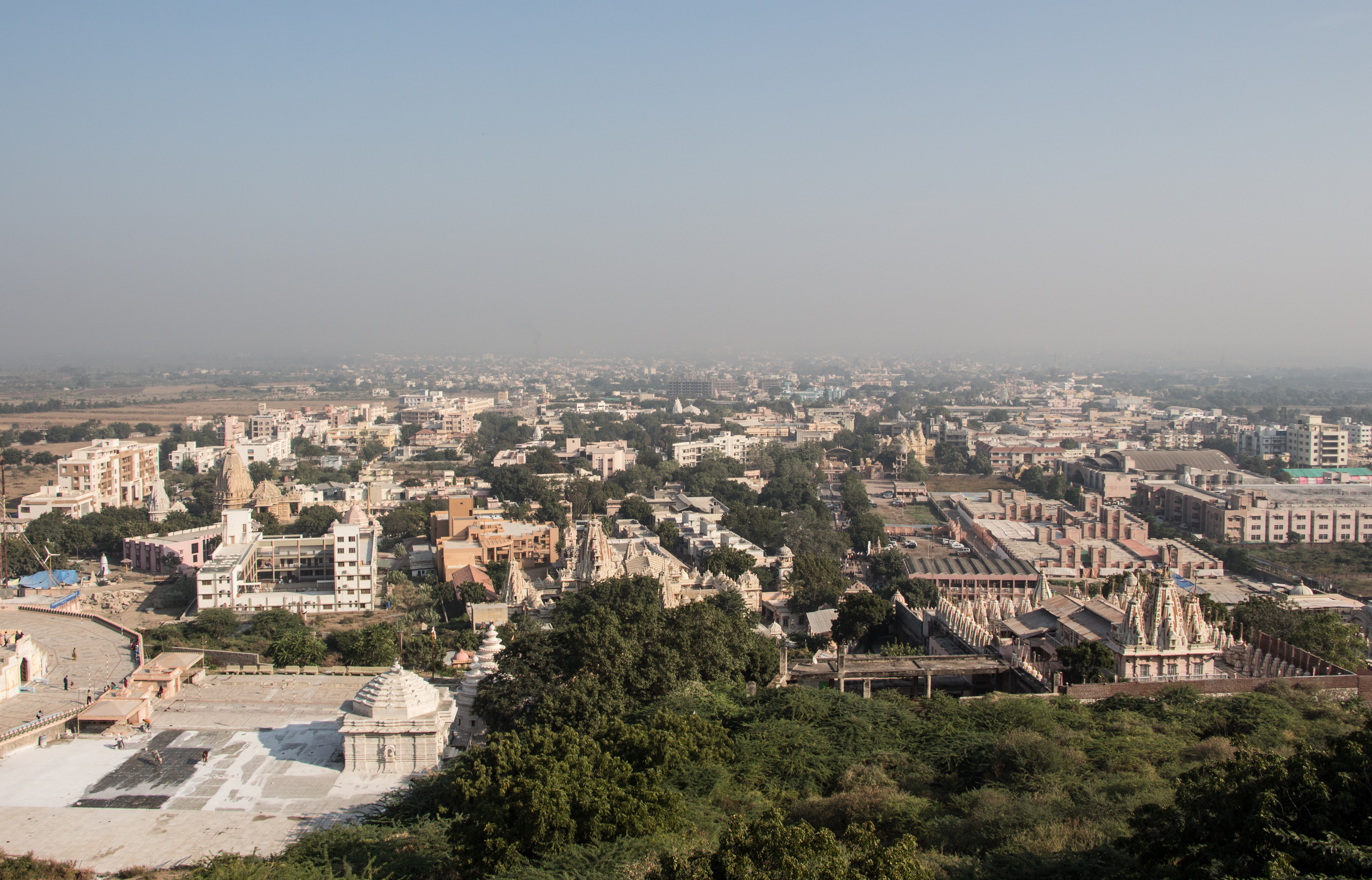 View of Palitana from Shatrunjaya hill, India